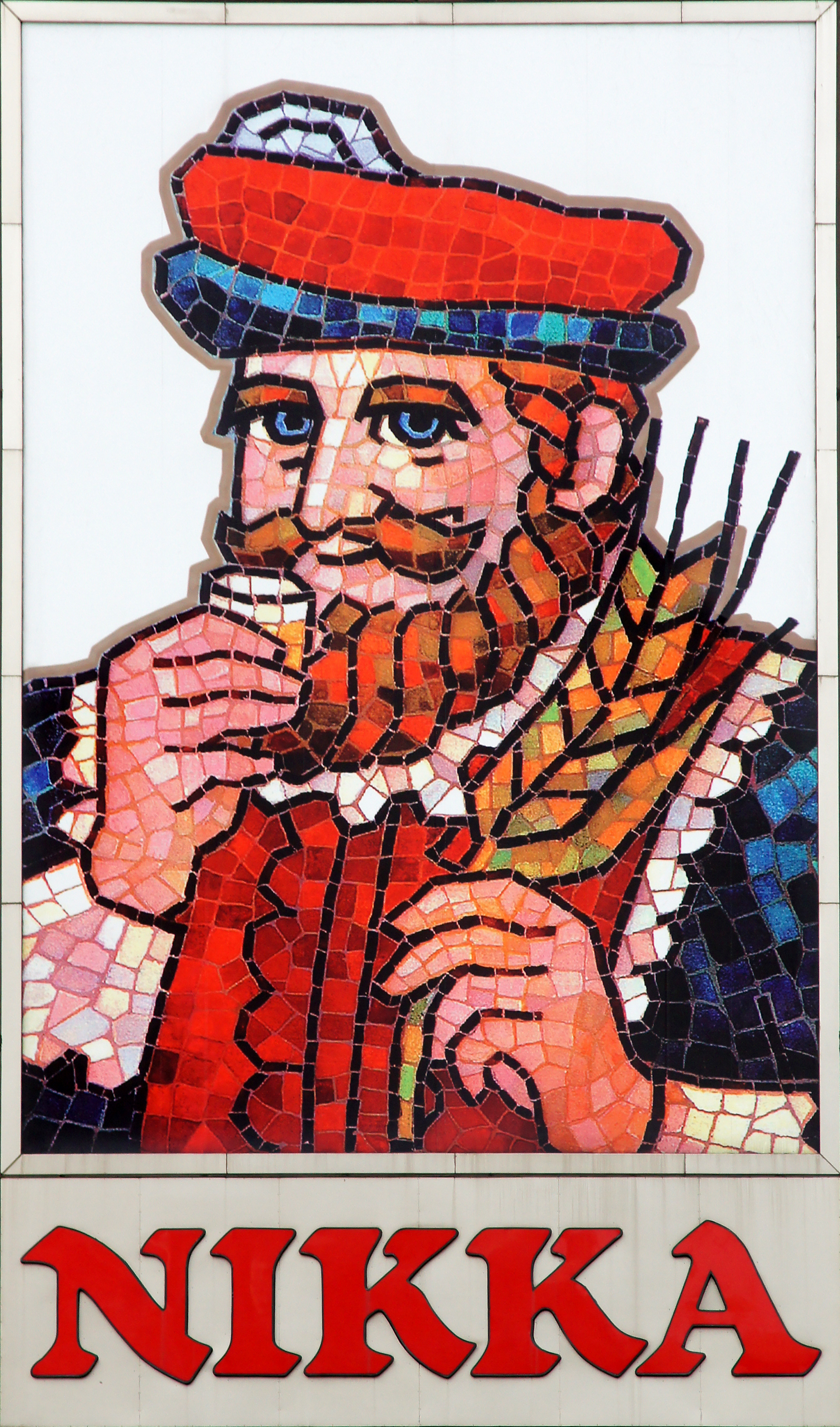 at Susukino, Sapporo, Hokkaido prefecture, Japan